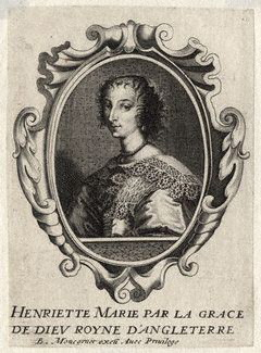 Henrietta Maria of France 4 3/4 in. x 3 3/8 in. (120 mm x 87 mm) paper size